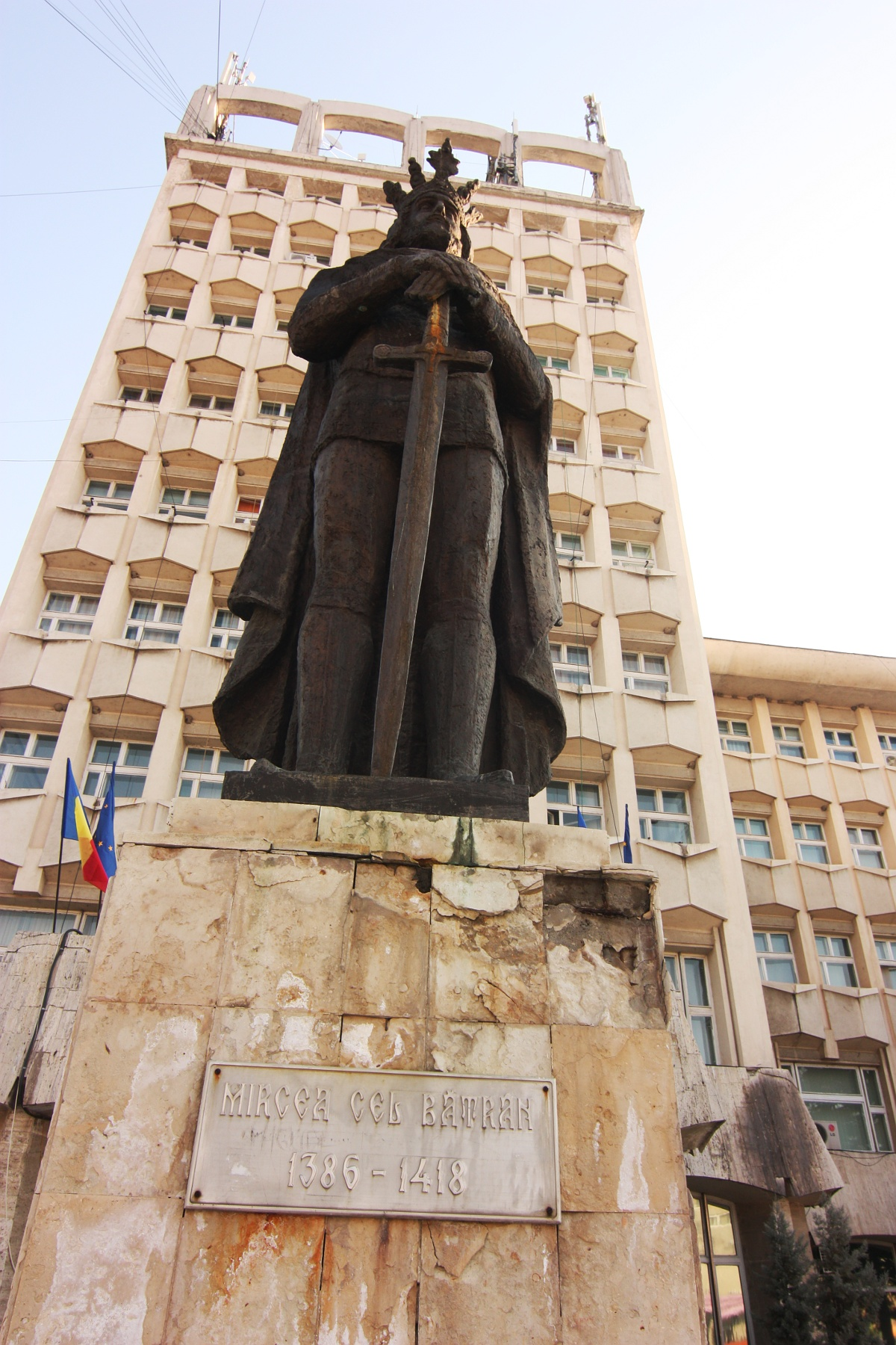 Statue of Mircea cel Bătrân în Târgoviște city center